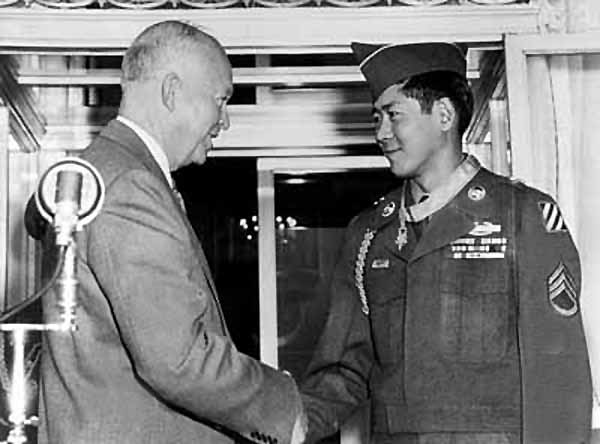 President Dwight Eisenhower congratulates Korean War veteran Army Staff Sergeant Hiroshi H. Miyamura after presenting him the Medal of Honor. Miyamura earned the medal as a corporal during an April 1951 battle that resulted in his capture by Chinese soldiers. His award was kept secret for his safety until after his repatriation in August 1953.